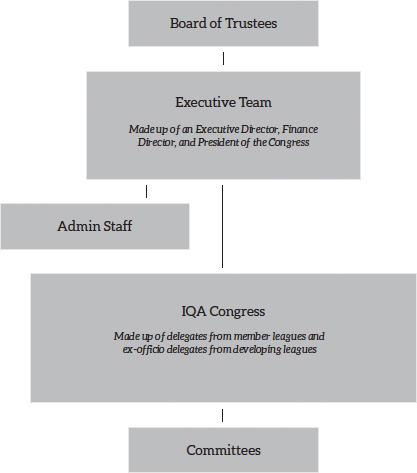 The explanation of the inner workings of the IQA.